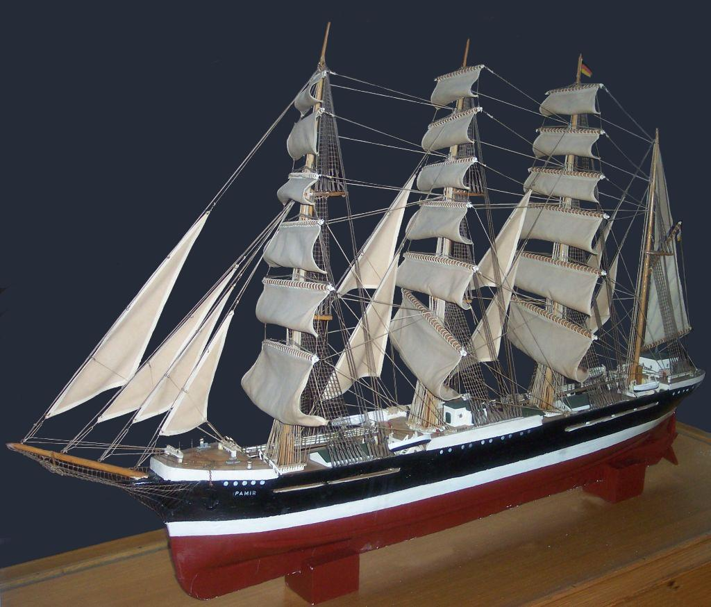 A model of Pamir, a four-masted barque that was one of the famous Flying P-Liner sailing ships of the German shipping company F. Laeisz.